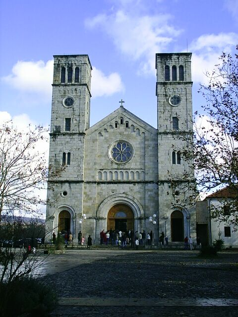 Town of Široki Brijeg in southwestern Bosnia